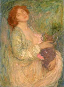 Laura Clifford Barney